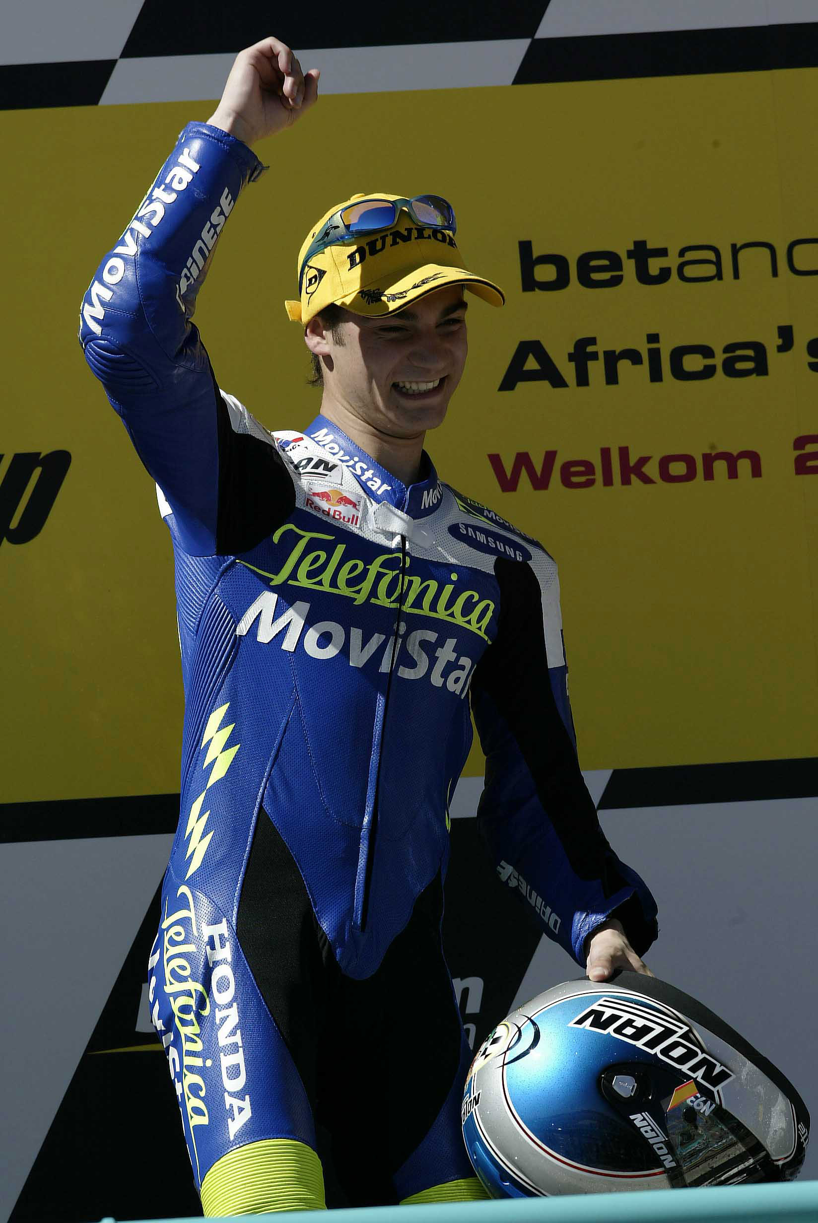 Dani Pedrosa, celebrating on the podium after winning the 2004 South African Grand Prix.